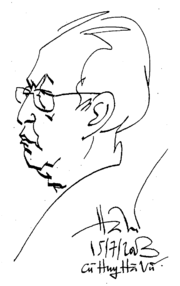 Portrait of Nguyen Quang Tuan